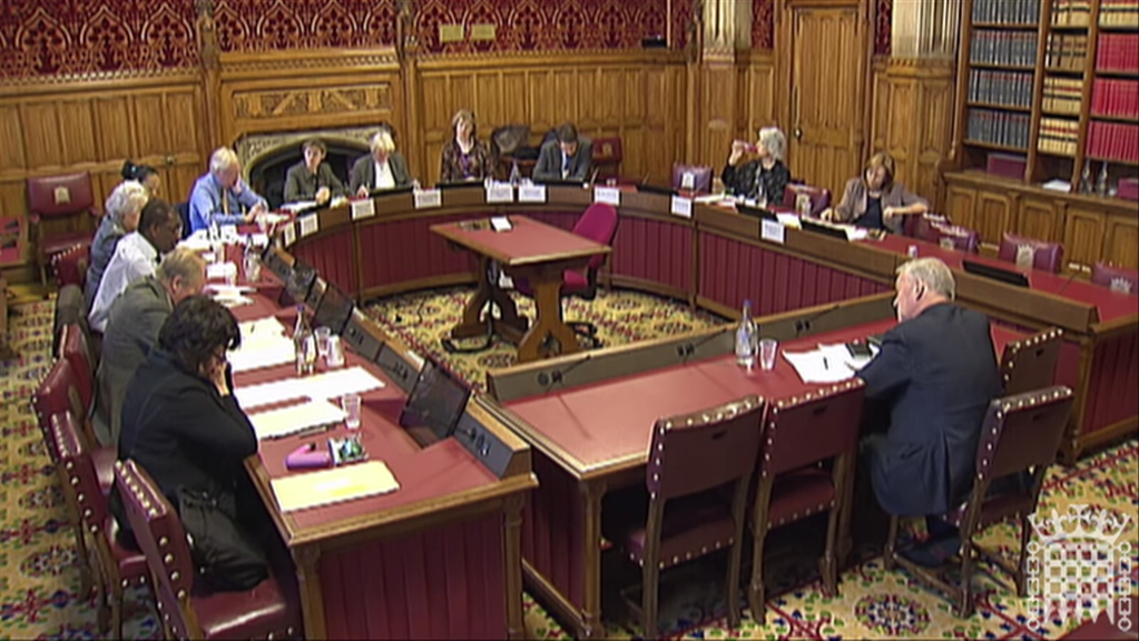 A select committee of the House of Lords, in session circa 2013